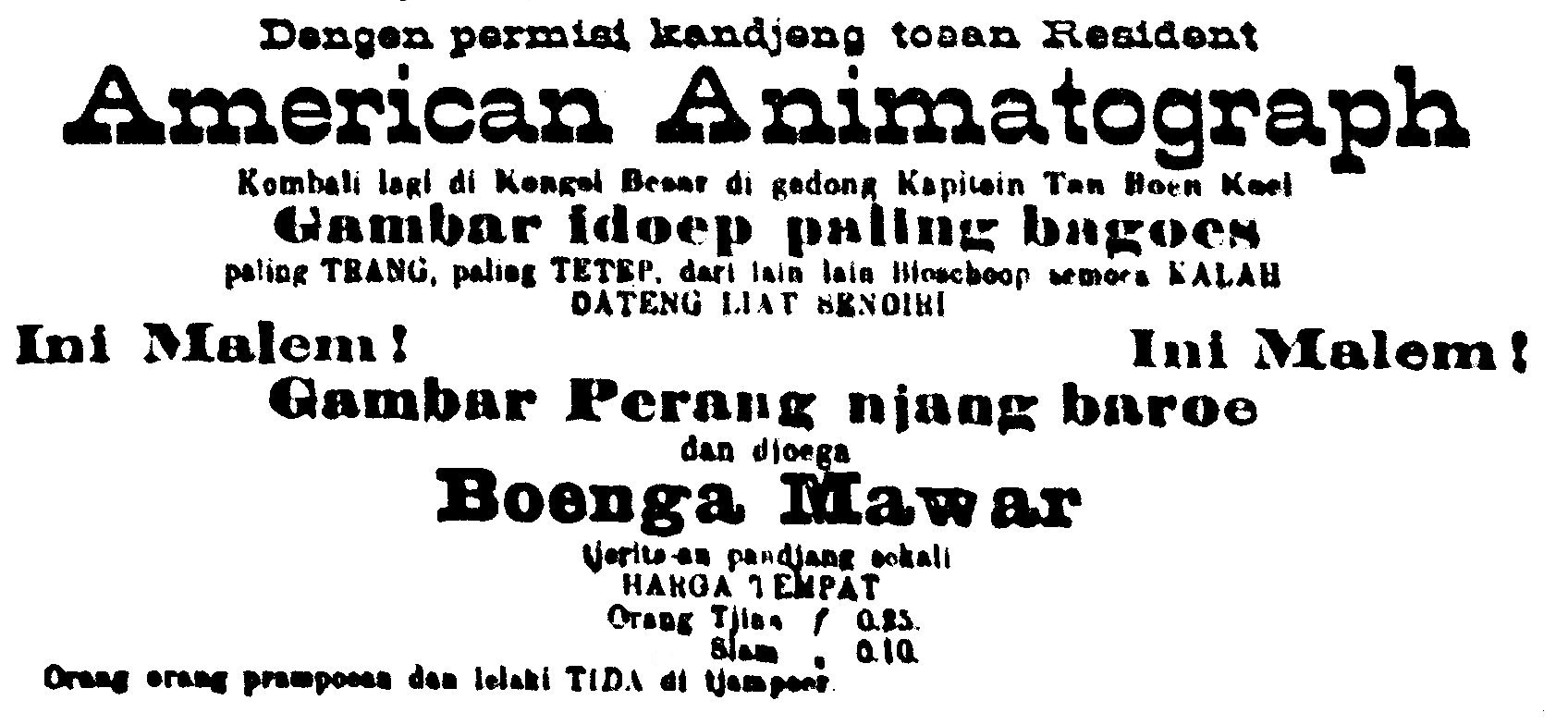 Ad for a short film showing in Batavia